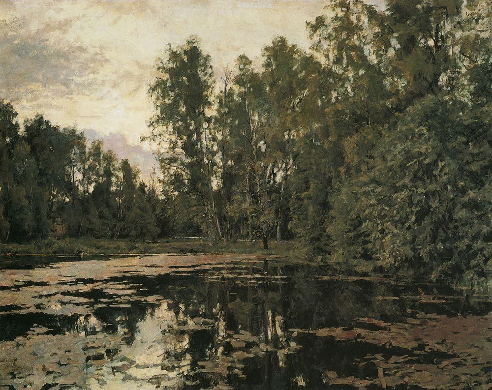 Serov Overgrown Pond, Domotkanovo 1888